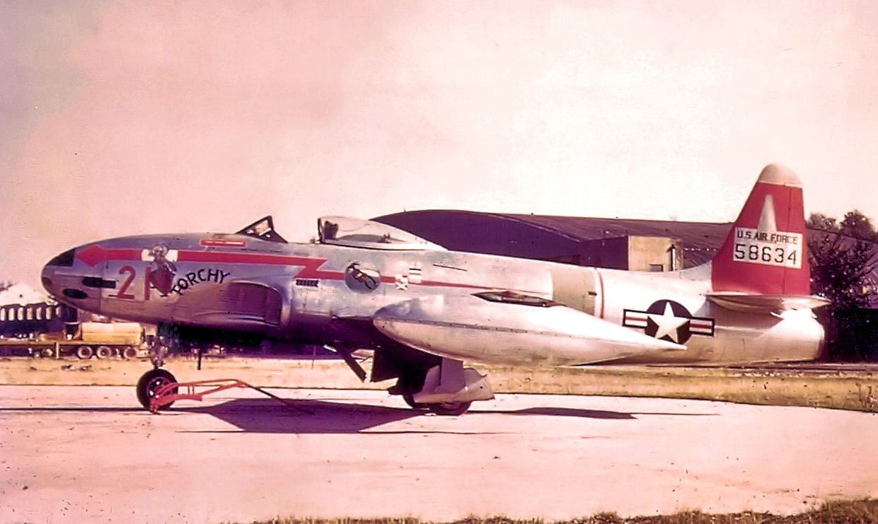 22d Fighter Squadron - Lockheed P-80B-1-LO Shooting Star - 45-8634 at Furstenfeldbruck AB, Germany